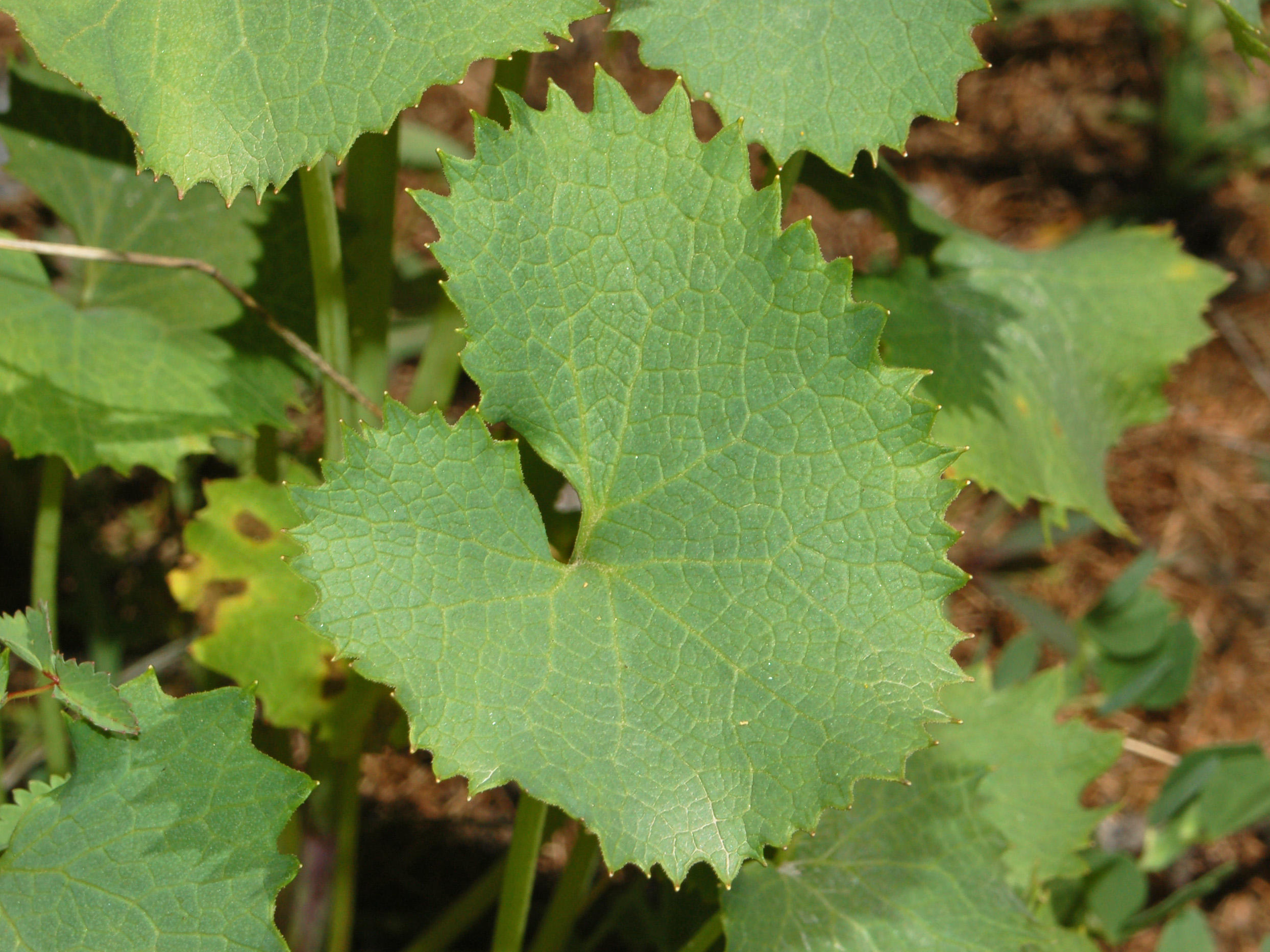 Adenostyles alpina - Valle Argentera, Torino, Italy